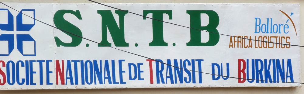 This is an image with the theme "Africa on the Move or Transport" from: Burkina Faso